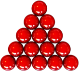 Triangle of the 15 reds in snooker. Note: This is not a full depiction of the setup of a game of snooker, as the colour balls are not shown.